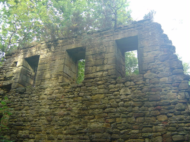 Ruins of Langley Hall, Durham The ruins of Langley Hall, a 16th century fortified manor house, between Burnhope and Langley Park in Durham.